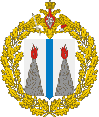 emblem of Far East Military District